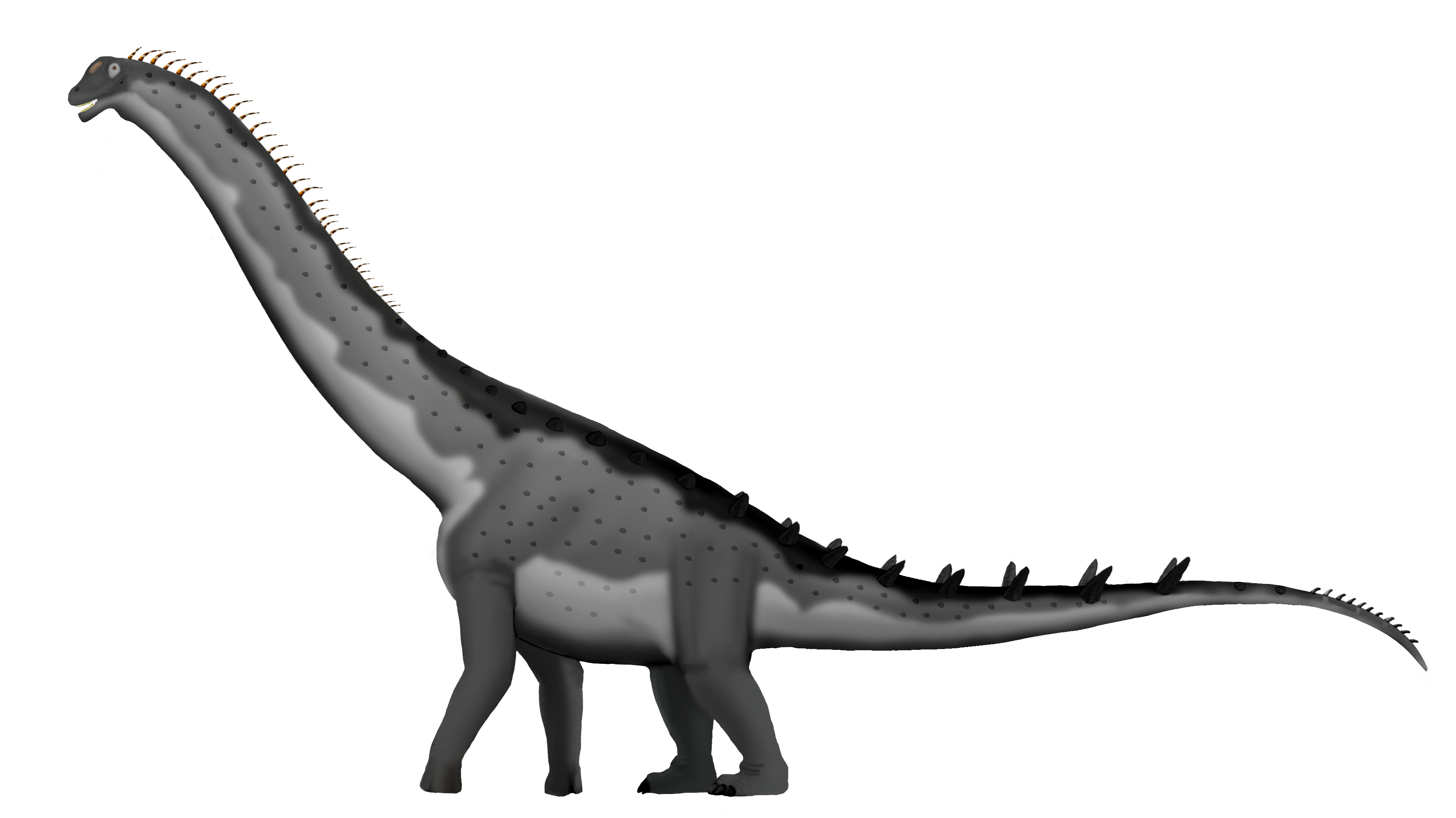 Hypothetical restoration of Alamosaurus sanjuanensis, based on Scott Hartman's skeletal restoration [1] with speculative quills and hypothetical osteoderms' position and osteoderms' layout loosely based on this interpretation, which is based on the work of Vidal et. al., 2015 [2]. • Alamosaurus body proportion is based on Scott Hartman's rescontruction, used with permission [3] • Alamosaurus is known to have supported osteoderms. The number of these osteoderms that an individual Alamosaurus would have supported in life and their and position on the body is not currently known. It's thought that due to the rarity of titanosaur osteoderms that they would be quite sparse on the body. The position and layout of the osteoderms has been loosely based on this interpretation, which is based on the work of Vidal et. al., 2015. [4]